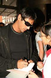 Arjun Rampal signing autographs at Temptation 2004 Photocall held at the Washington Hotel in London, England.